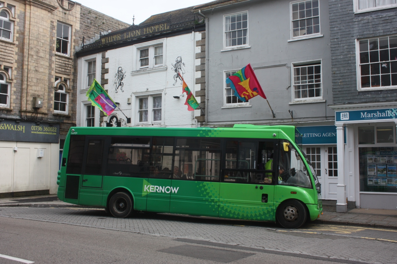 The bus to Moushole calls at the Greenmarket in Penzance. This Optare Solo is First Kernow's 53701 which carries registration LK05DYO.